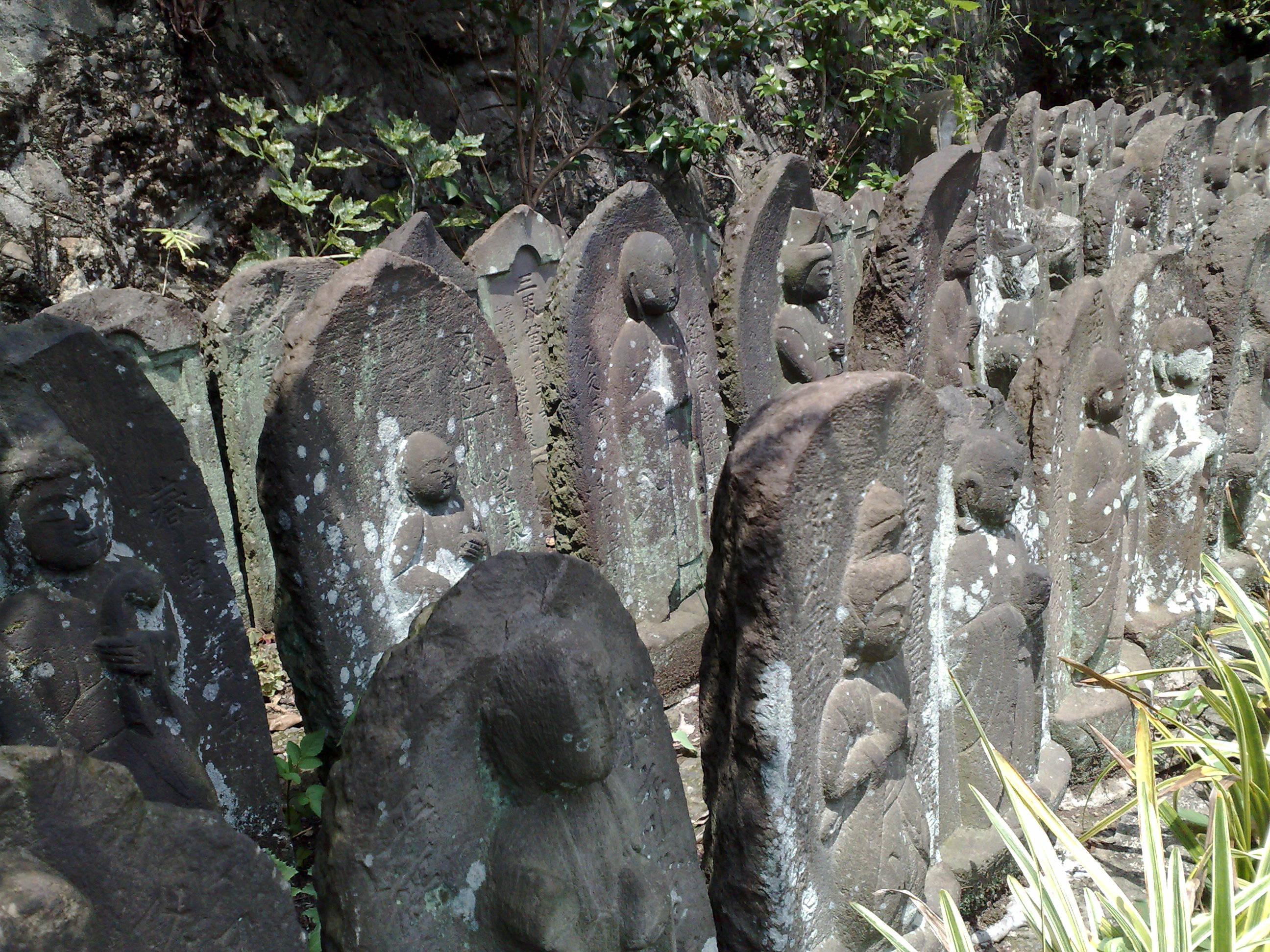 Stone Buddhas of Chosenji Temple(Jingumae, Shibuya, Tokyo)